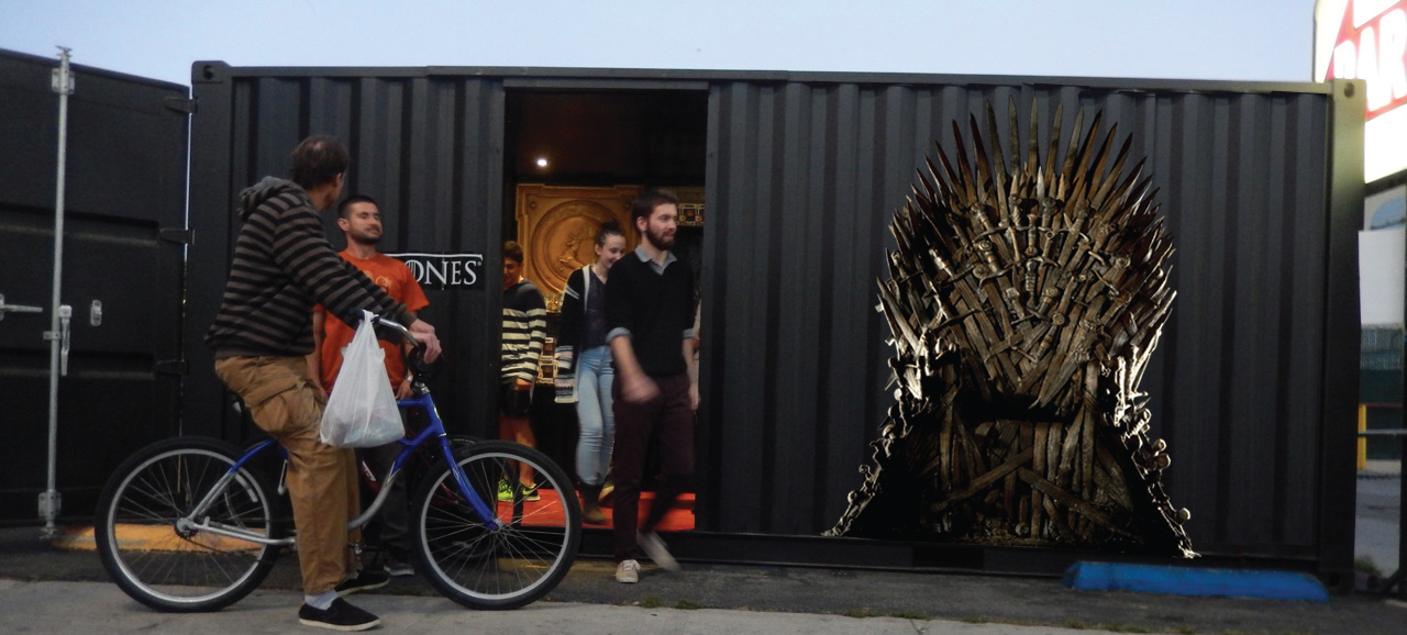 Vacant for HBO Game of Thrones UCLA Bruins pop-up shipping container event for the premiere Apr-2nd-14